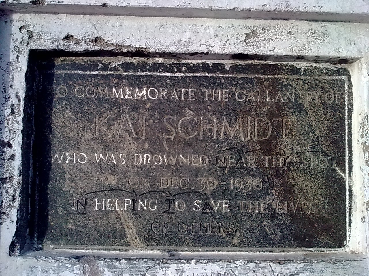 Karl Schmidt Memorial plate at Besant Nagar beach, Chennai